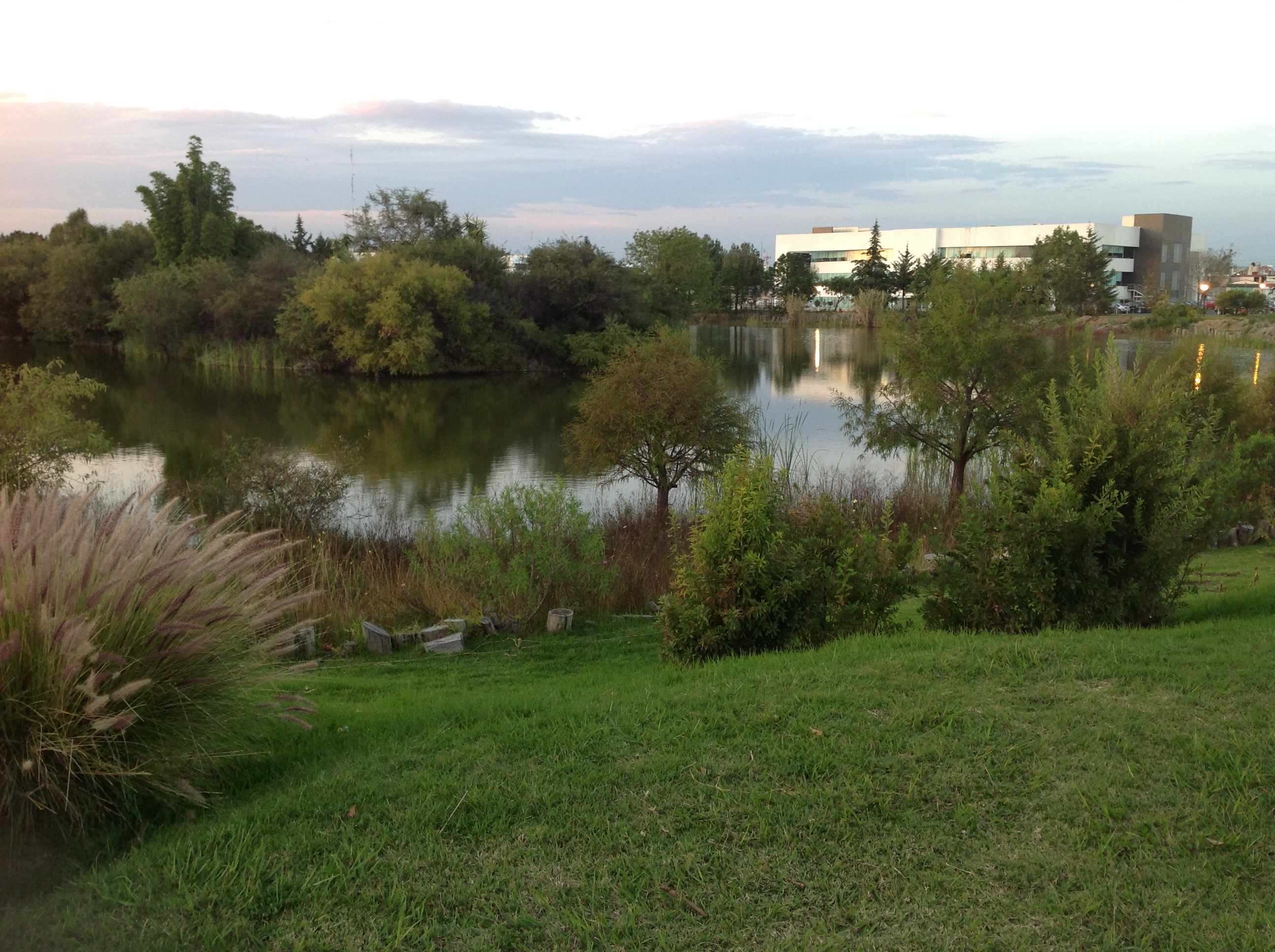 Botanical Garden, BUAP, Puebla (Mexico)